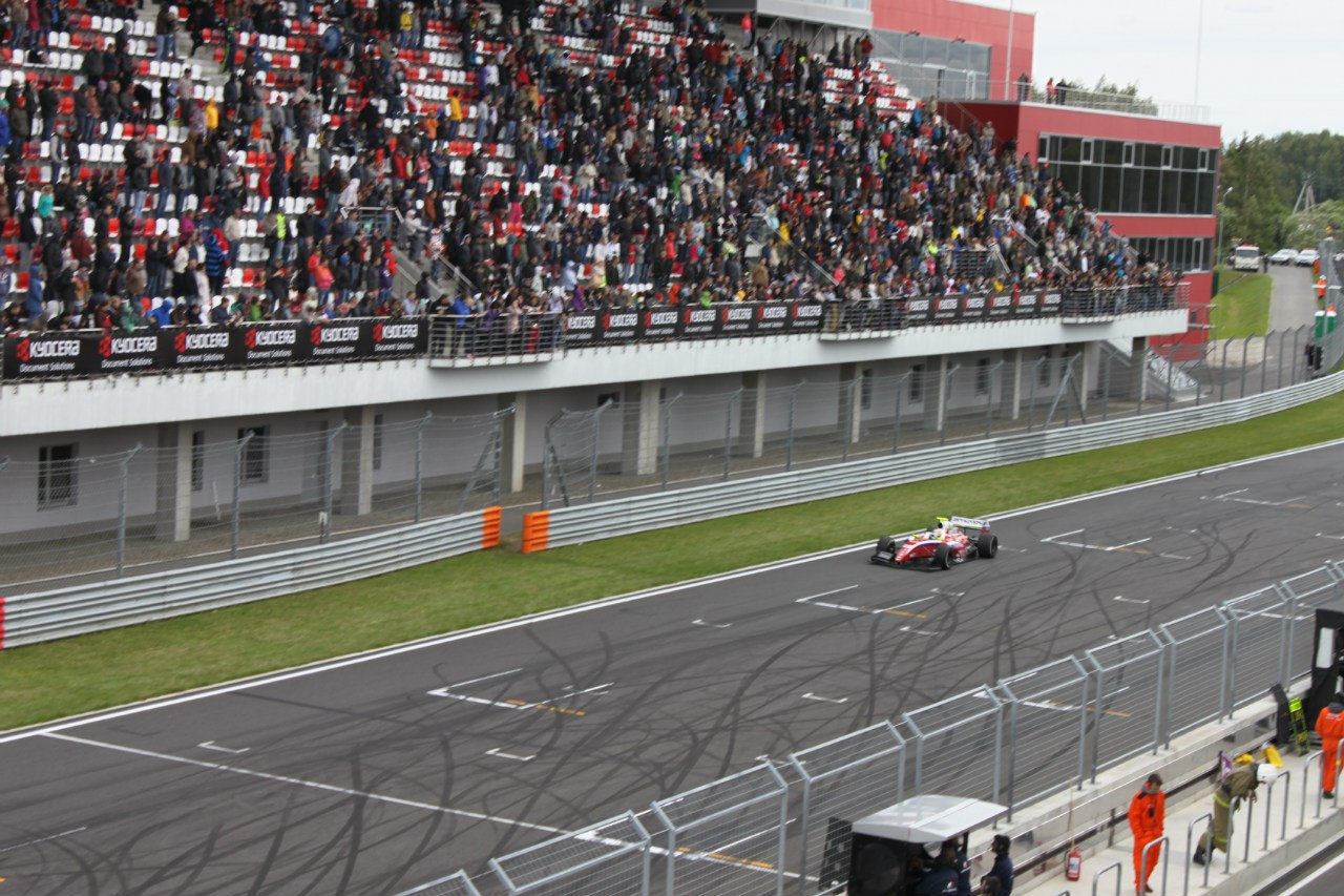 Merhi during Race 1 of the 2014 Formula Renault 3.5 Series season at Moscow Raceway.